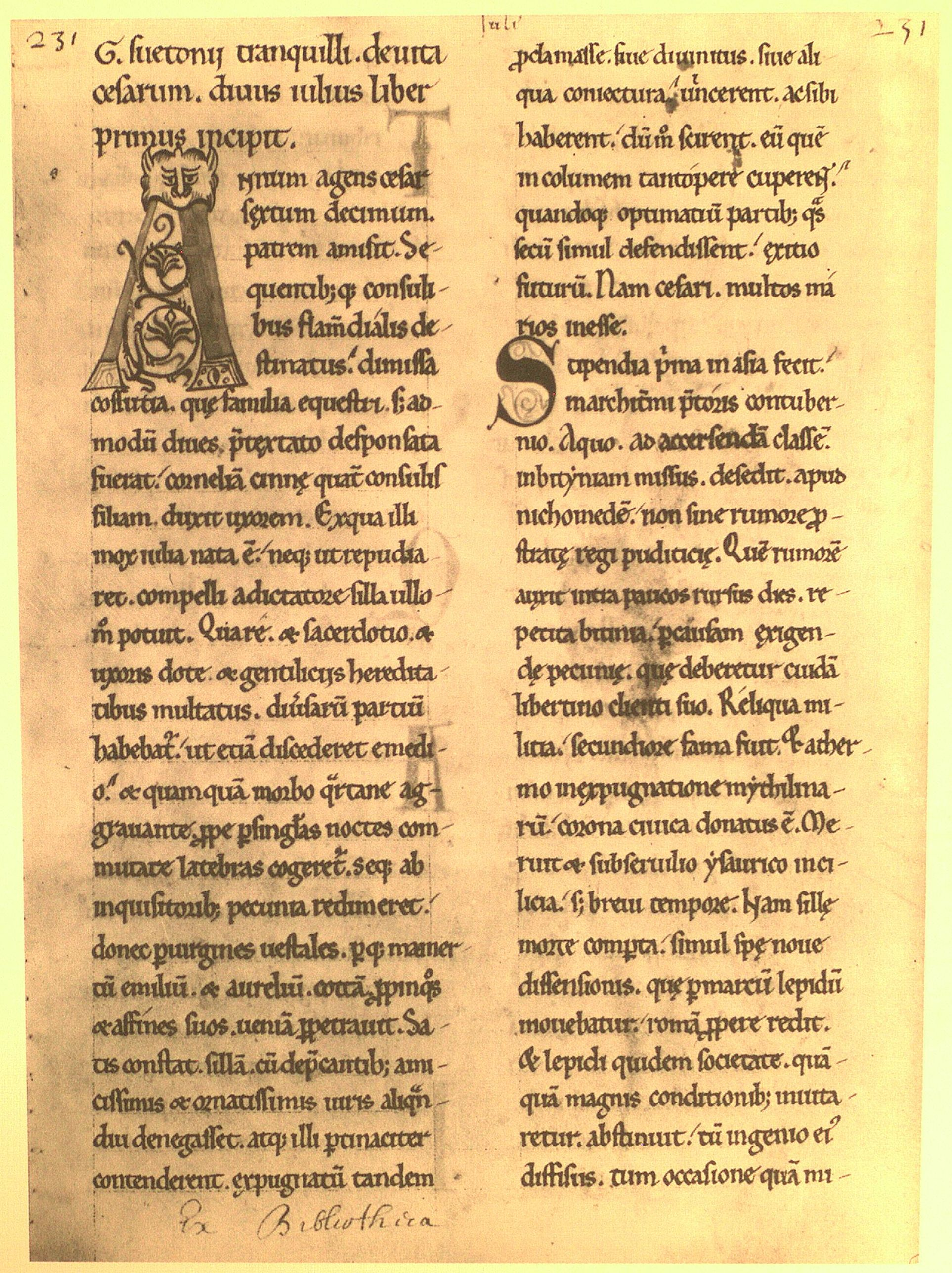 The beginning of the „De vita Caesarum“ in the manuscript London, British Library, Egerton 3055, fol. 2r.